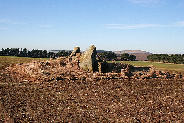 St Brandan's Stanes The Royal Commission on the Ancient and Historical Monuments of Scotland web site has them listed as an Ancient Monument, consisting of two pillars with a recumbent slab between, and some other worked stones surrounding them. An urn containing coins was found here, and St Brandan's Fair was held nearby.